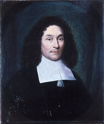 Johannes Leusden (1624-1699), Dutch professor in Hebrew.